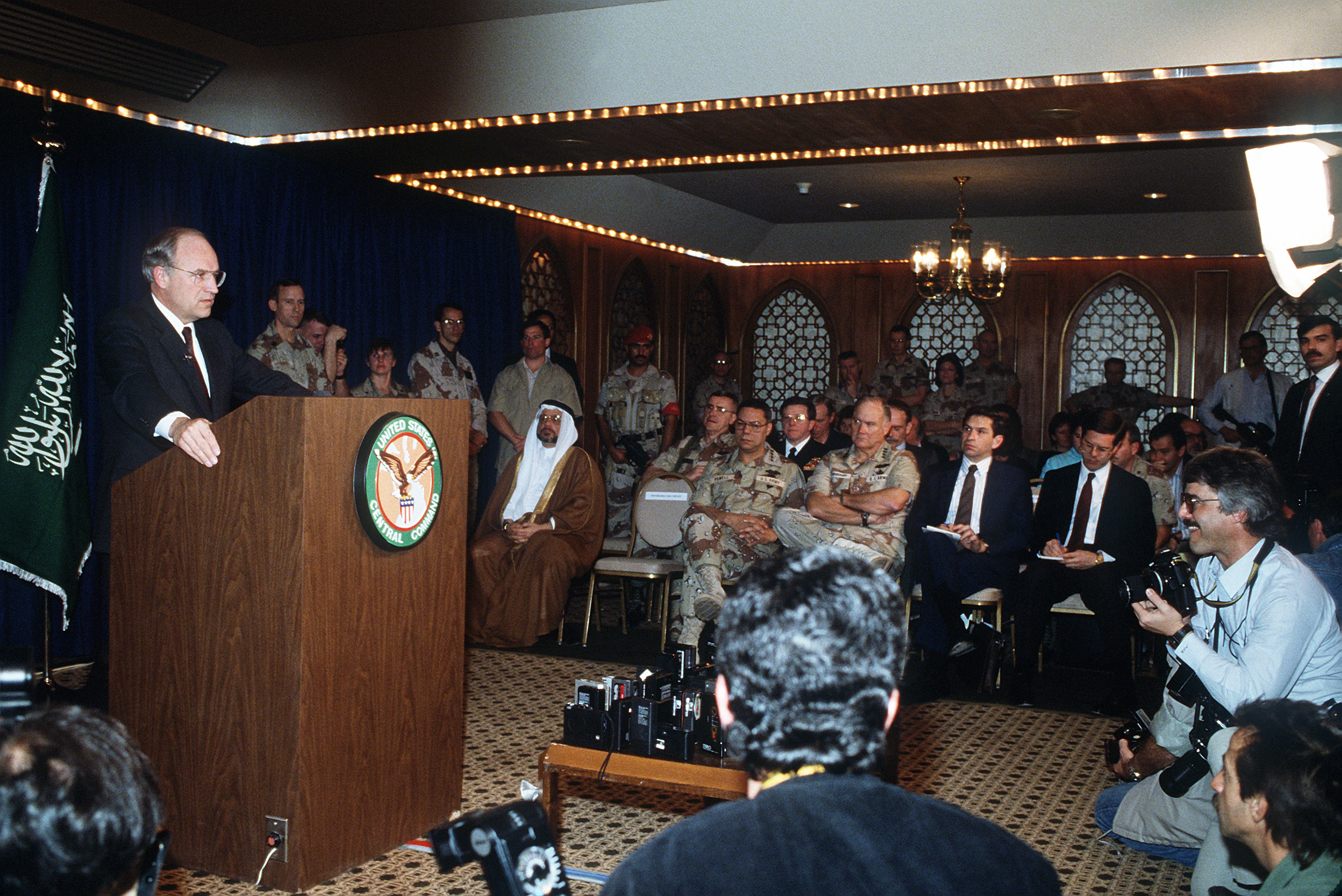 Secretary of Defense Dick Cheney responds to questions from the media while taking part in a press conference held by U.S. and Saudi Arabian officials during Operation Desert Storm. Seated in the background are (from left to right): Gen. Colin Powell, chairman, Joint Chiefs of Staff; Gen. Norman Schwarzkopf, commander-in-chief, U.S. Central Command; and Paul D. Wolfowitz, under secretary of Defense for policy, and Pete Williams, Assistant Secretary of Defense for Public Affairs.